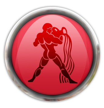 Ivan and Diana, are known, Aquarius and Gemini this is known for old files that unite these two people from previous lives, in order to begin the story of good and evil, polar opposites, the aquarium is a sensitive person, evil genius, believe in love, intelligent, shy. geminis a charming woman, talkative, does not believe in love knows love through to Ivan, said that his reincarnation will be given to mid 80s and come to know by 2006, they do not have to fight a relationship so they are together, are the symbol of love and wisdom. currently have an approximate age of 26 years, help us to find this couple, from Miami know that this reincarnation is indigenous and lunar symbol, sabesmos the reincarnation of these two figures is in south america, if you know a similar story to write favor. Ivan is a man of medium height, long black hair, dark eyes, tan skin and Dian is a Woman of Stature half, robust, light brown eyes, brown hair, lined face, white skin